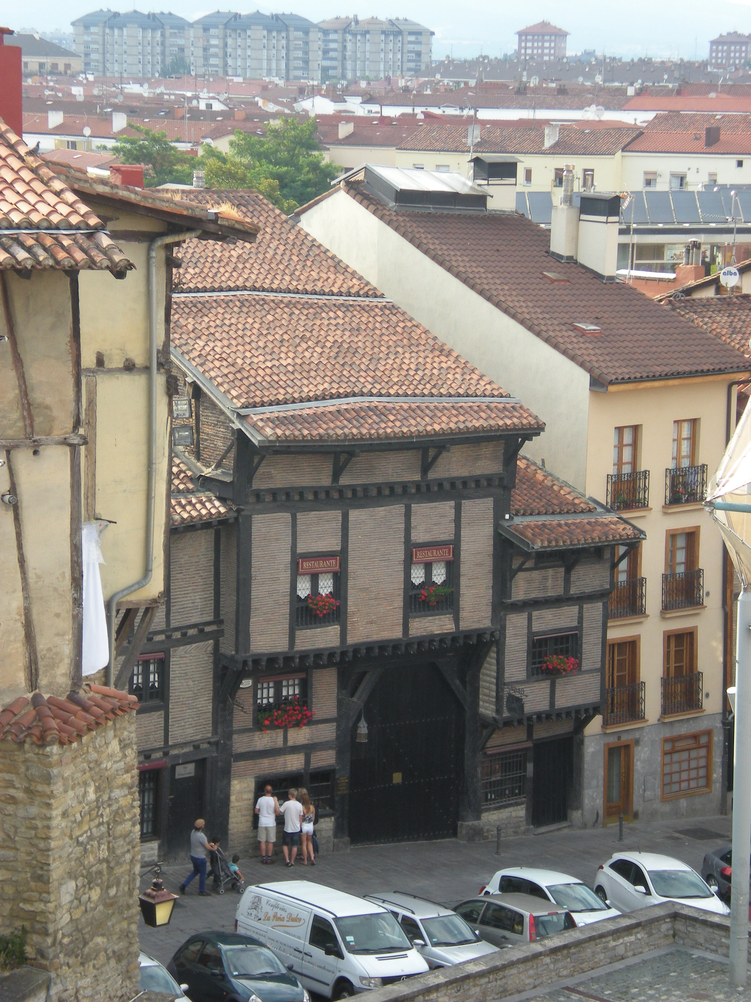 El Portalón (Spanish) or Portalea (Basque), a 15th century building in Vitoria-Gasteiz, viewed from Santa Maria cathedral.